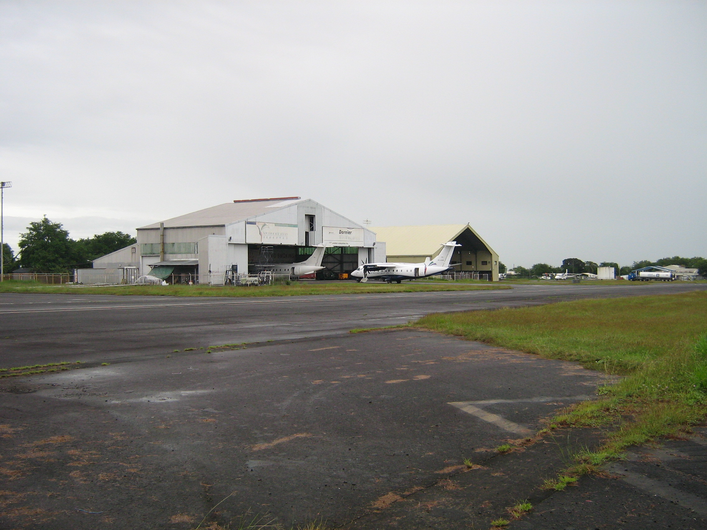 DMIA hangars at clark field